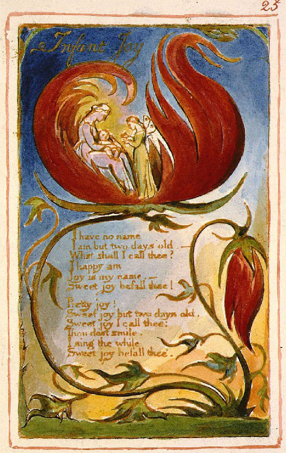 Songs of Innocence and of Experience, copy AA, 1826 (The Fitzwilliam Museum): electronic edition object 25 (Bentley 25, Erdman 25, Keynes 25)